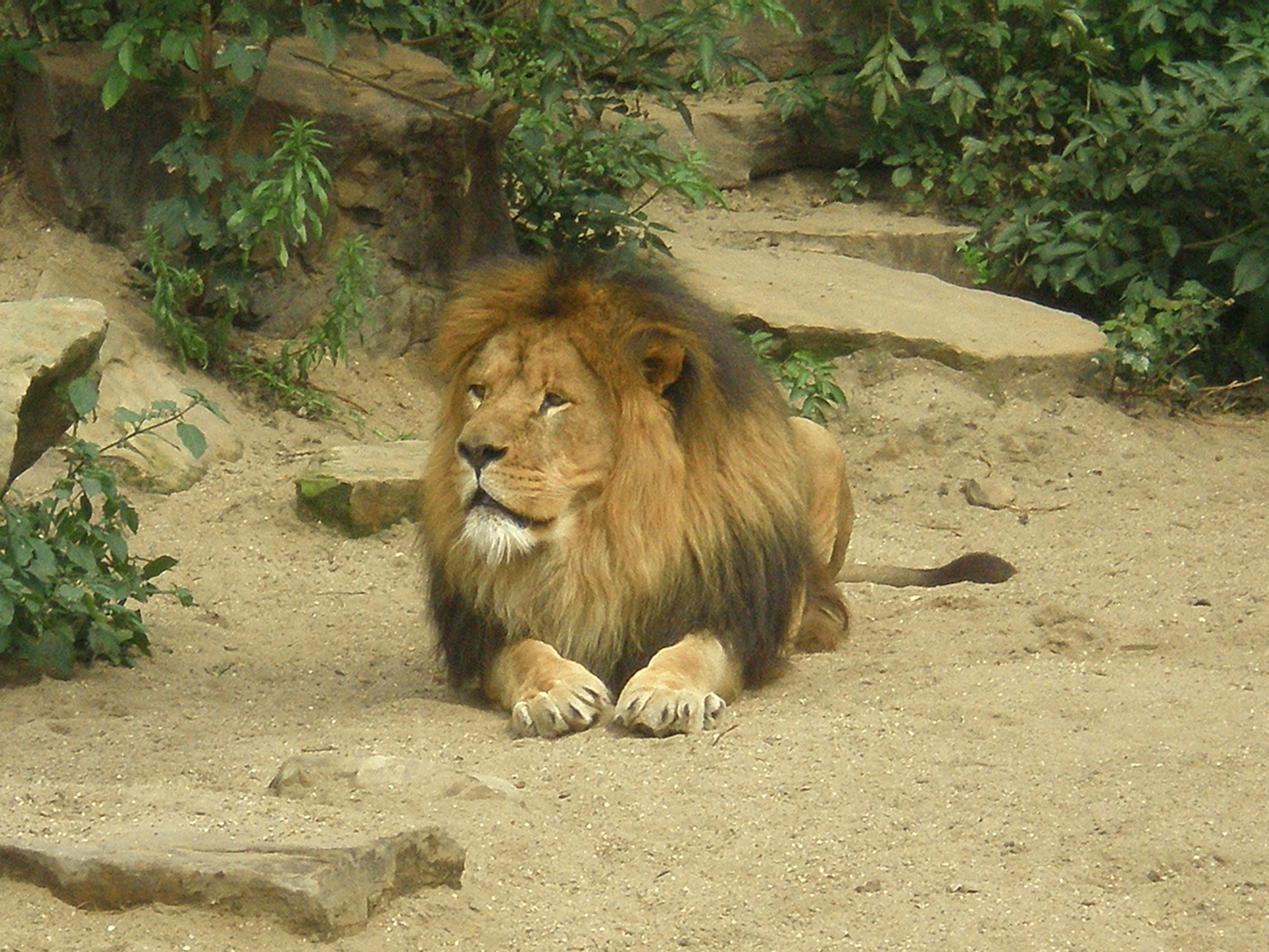 The Lion (Panthera leo).